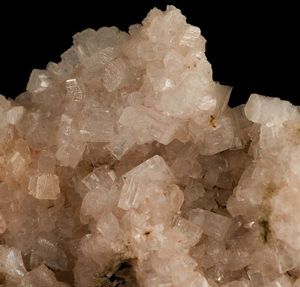 Brewsterite-Sr Locality: Yellow Lake, Olalla, Osoyoos Mining Division, British Columbia, Canada (Locality at ) Size: 2.7 x 2.6 x 0.8 cm. An aesthetic and sculptural thumbnail specimen encrusted with sparkly, gemmy to translucent, light pink to colorless crystals of the rare barium, strontium zeolite brewsterite from Yellow Lake, British Columbia, Canada. A fine specimen, with nice form and particularly gemmy for the species.